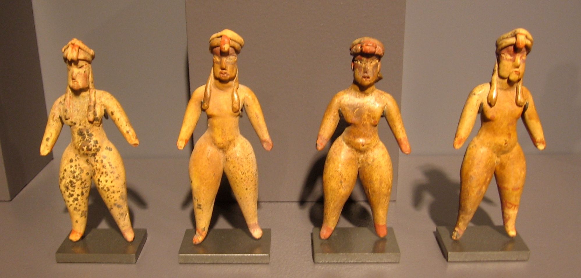 Four ceramic figurines from the Tlapacoya archaeological site in central Mexico. 1500-1300 BC. There are traces of paint on these figurines.